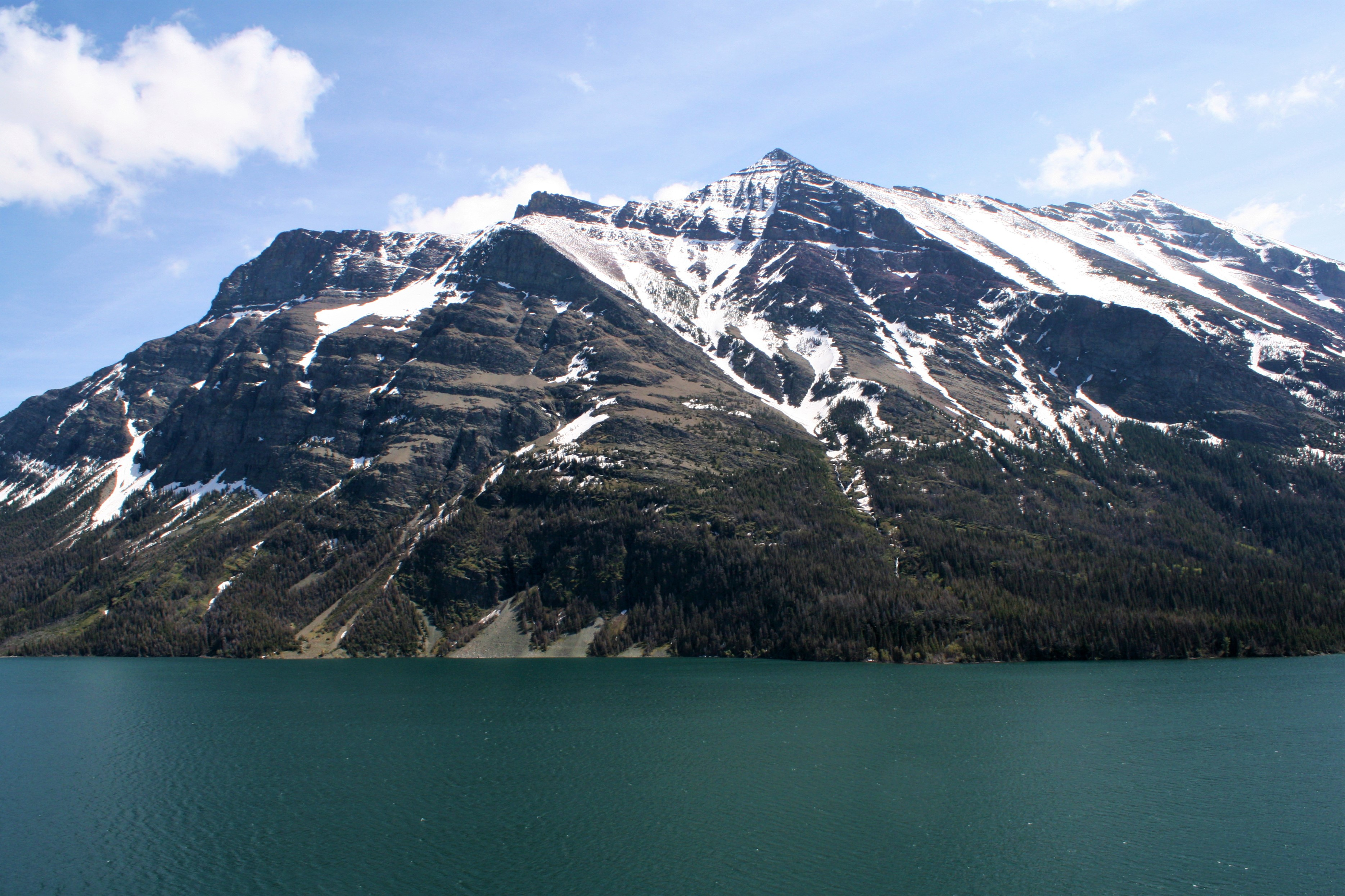 St. Mary Lake and north aspect of Red Eagle Mountain in Glacier National Park, Montana